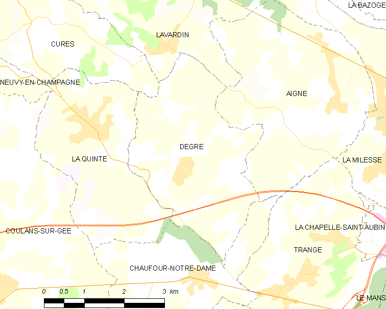 Map of French municipality